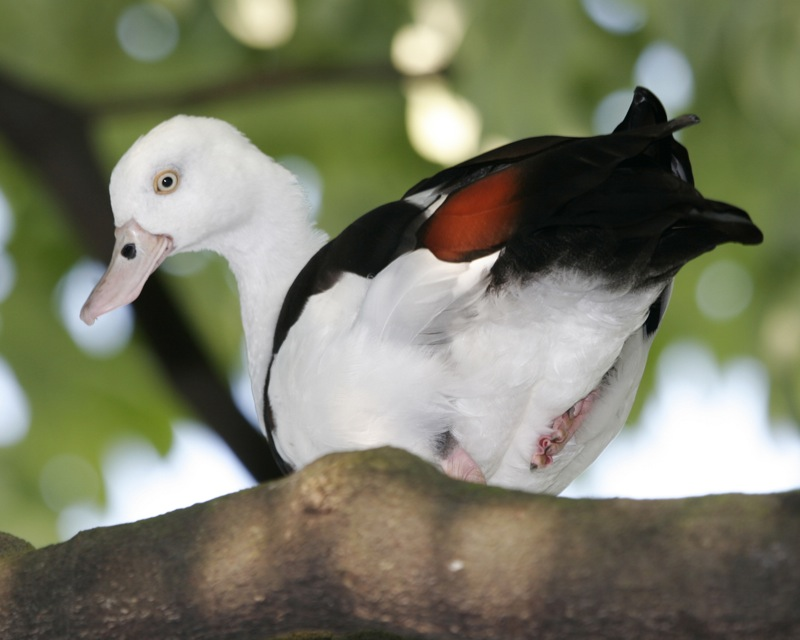 White-headed Shelduck (Tadorna radjah radjah)